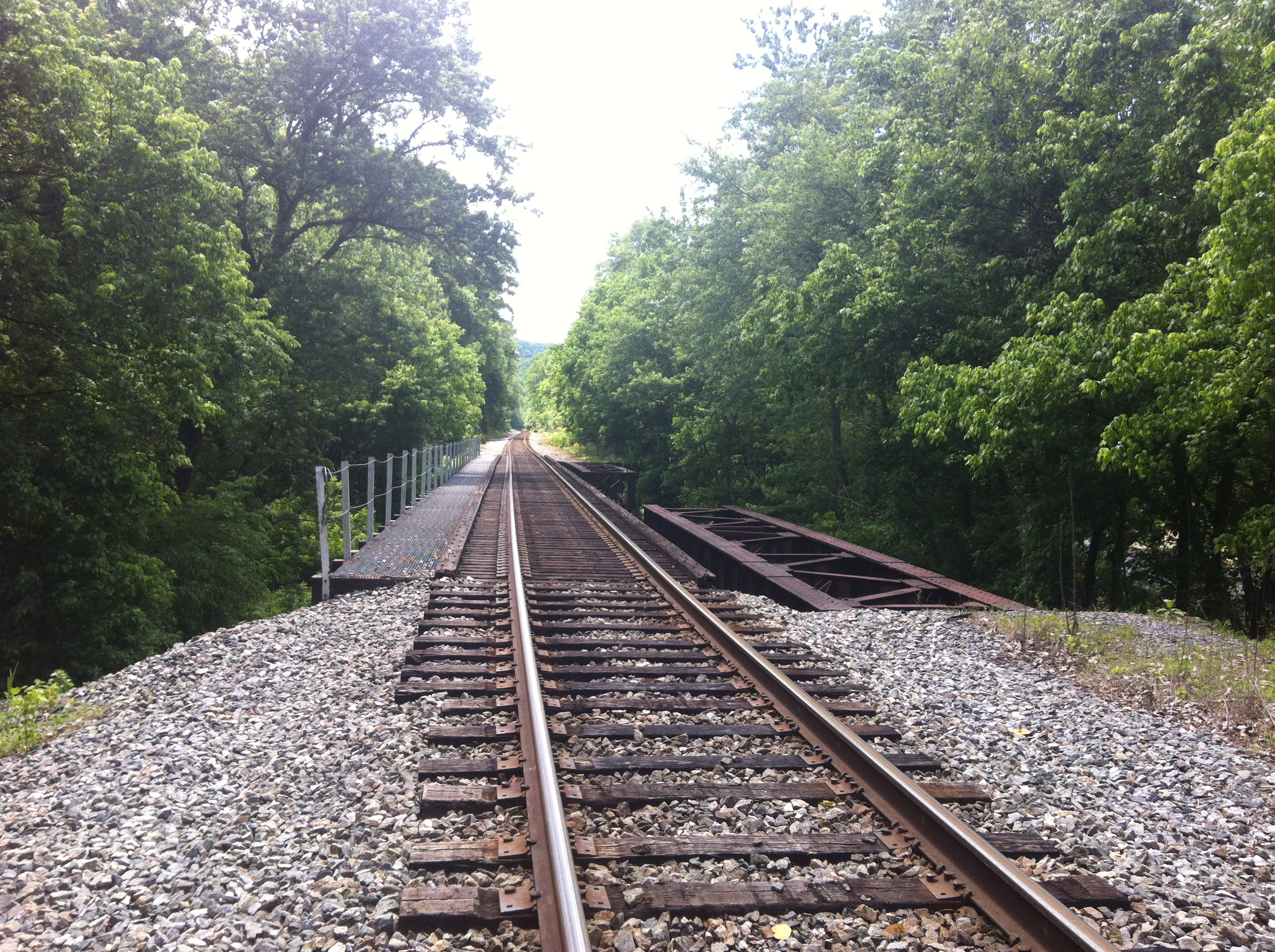 This photo shows the CSX Railroad tracks at Gill, WV.